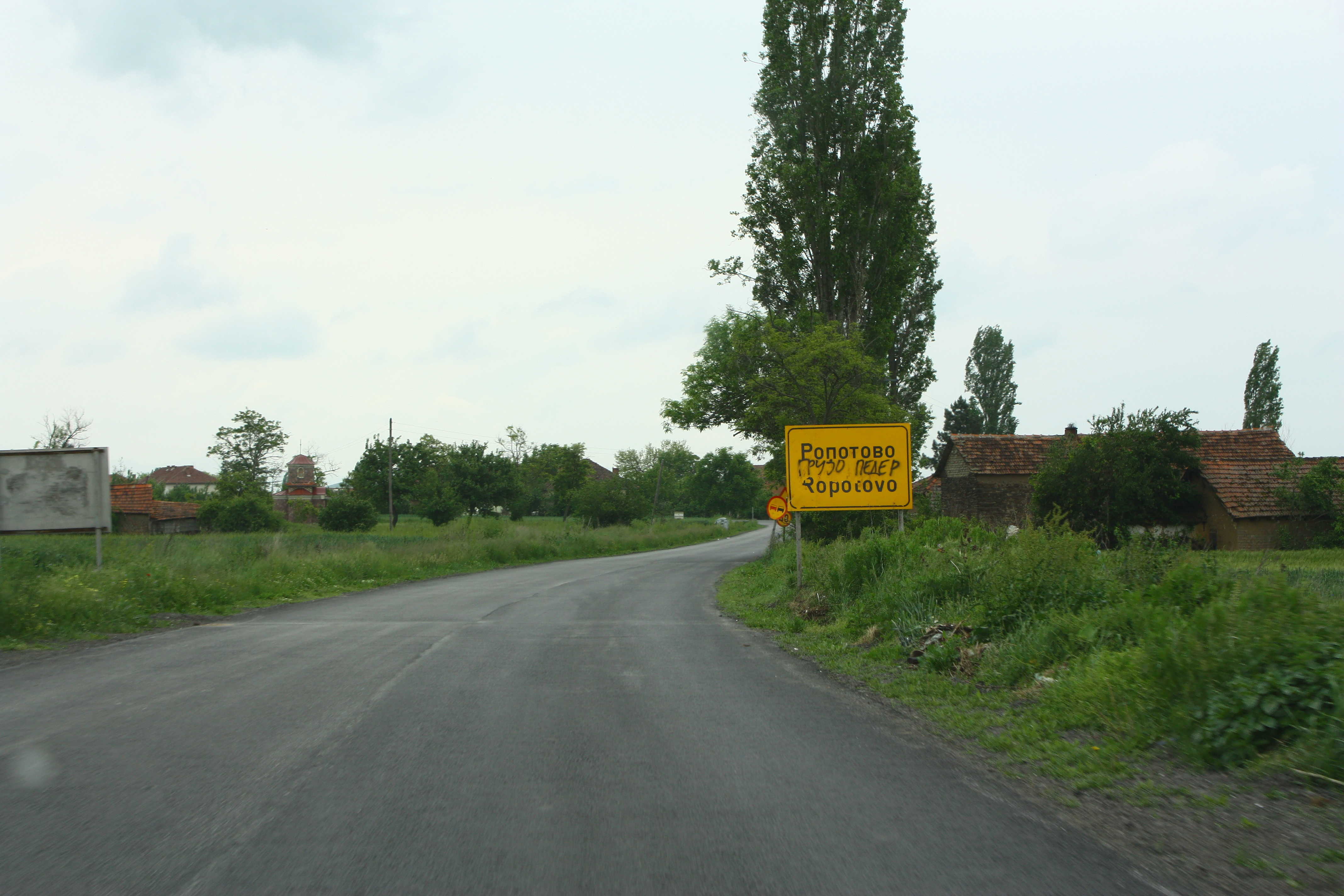 Ropotovo, Macedonia